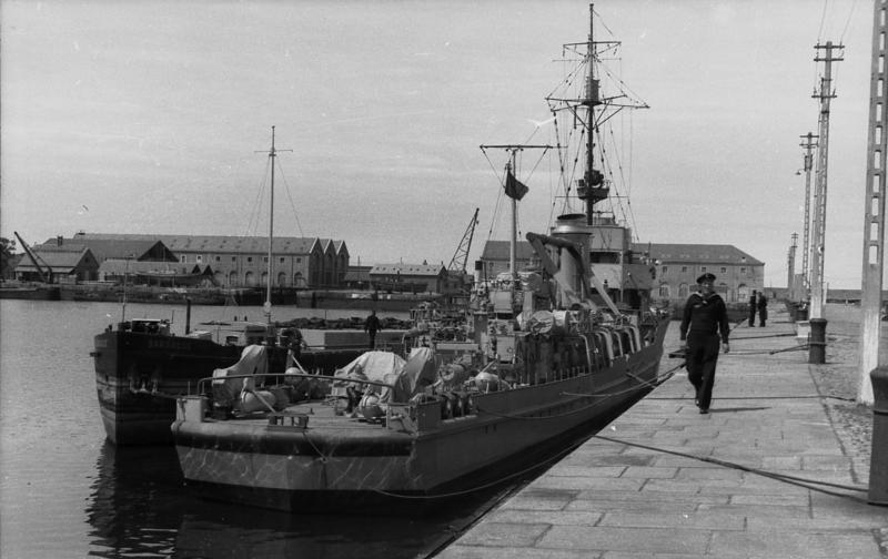 Information added by Wikimedia users.